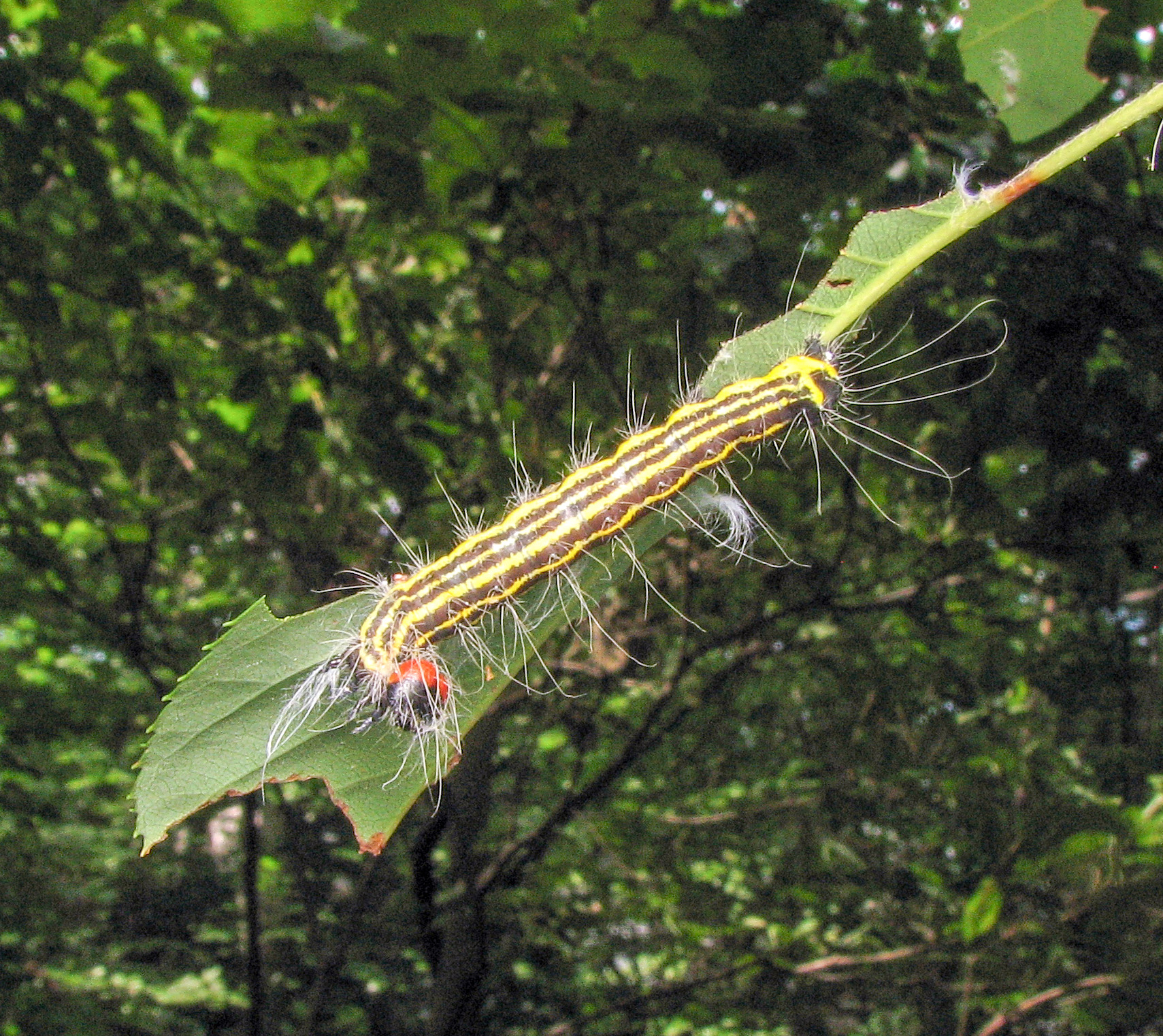 Caterpillar of Acronicta radcliffei (Radcliffe's Dagger Moth - Hodges#9209) feeding on serviceberry (Amelanchier). Briar Bush Nature Center, Montgomery County, Pennsylvania, USA.